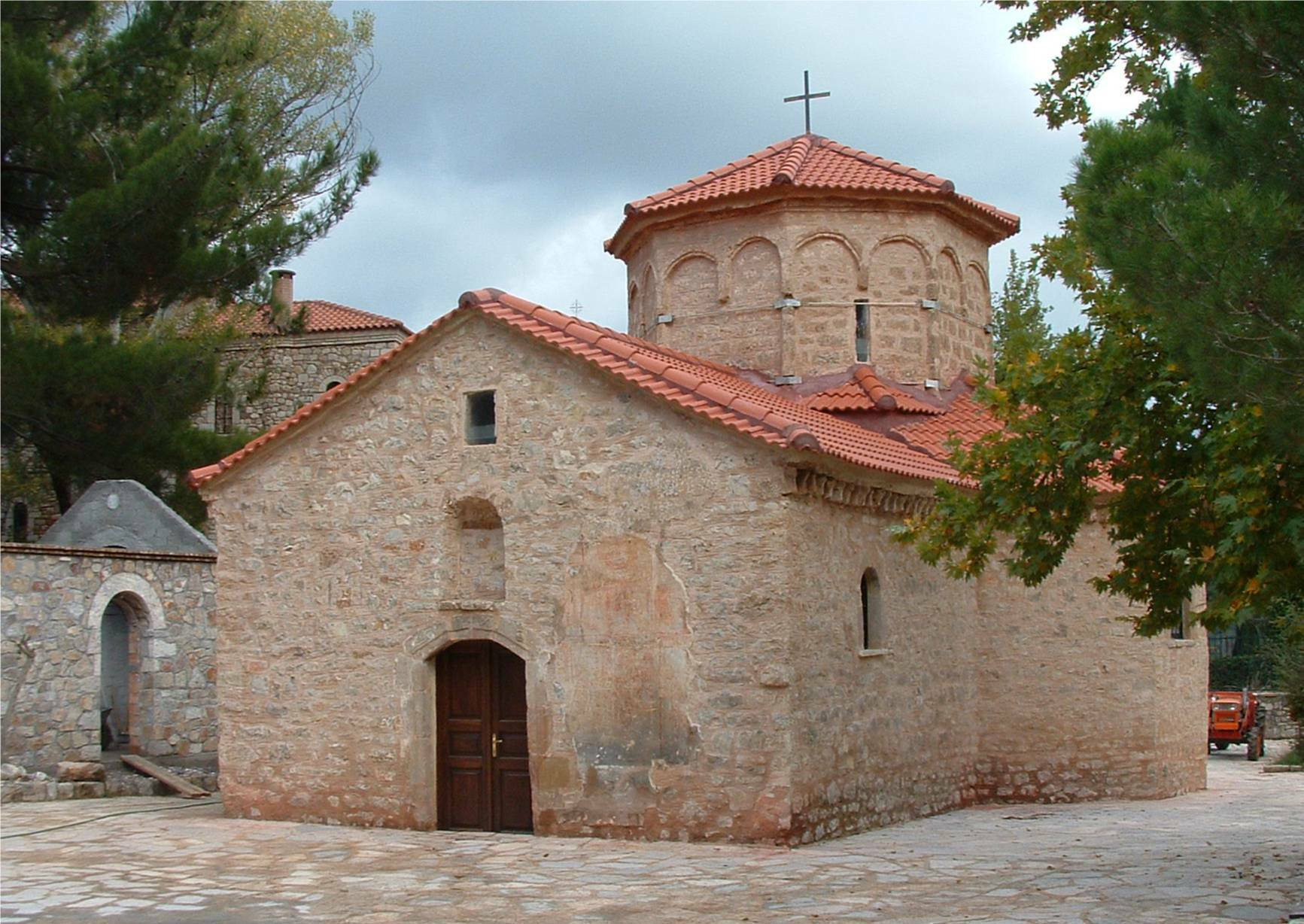 Monastery of Agia Lavra